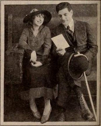 Still from the American drama film Triumph (1917) with Dorothy Phillips and William Stowell, on page 16 of the September 15, 1917 Exhibitors Herald.